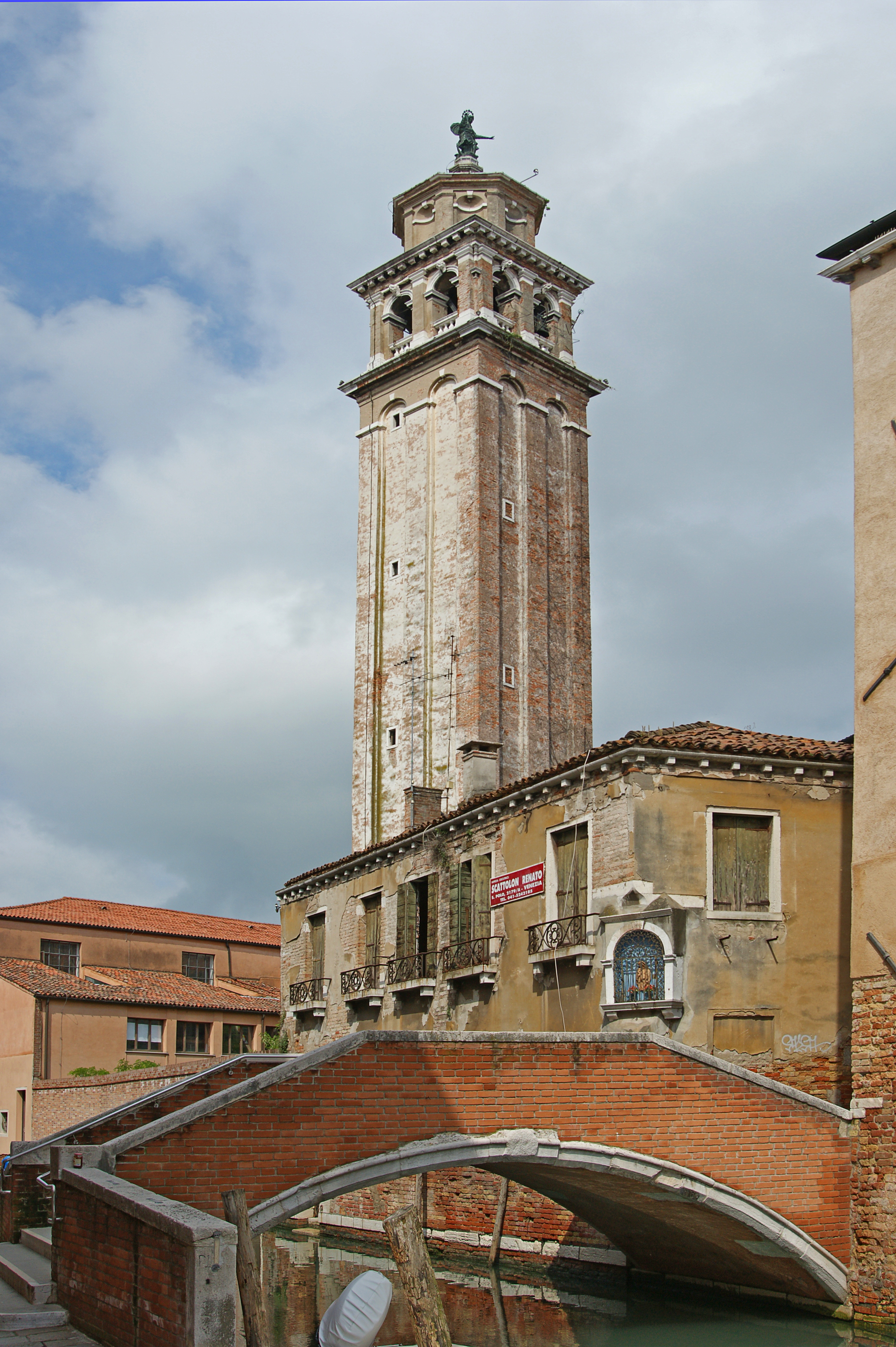 Ponte de le Pazienze and the bell tower of the Church of Santa Maria dei Carmini,Venice.